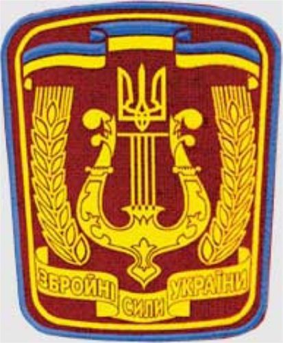 Ukrainian Army Military Conductors and Musicians shoulder sleeve insignia